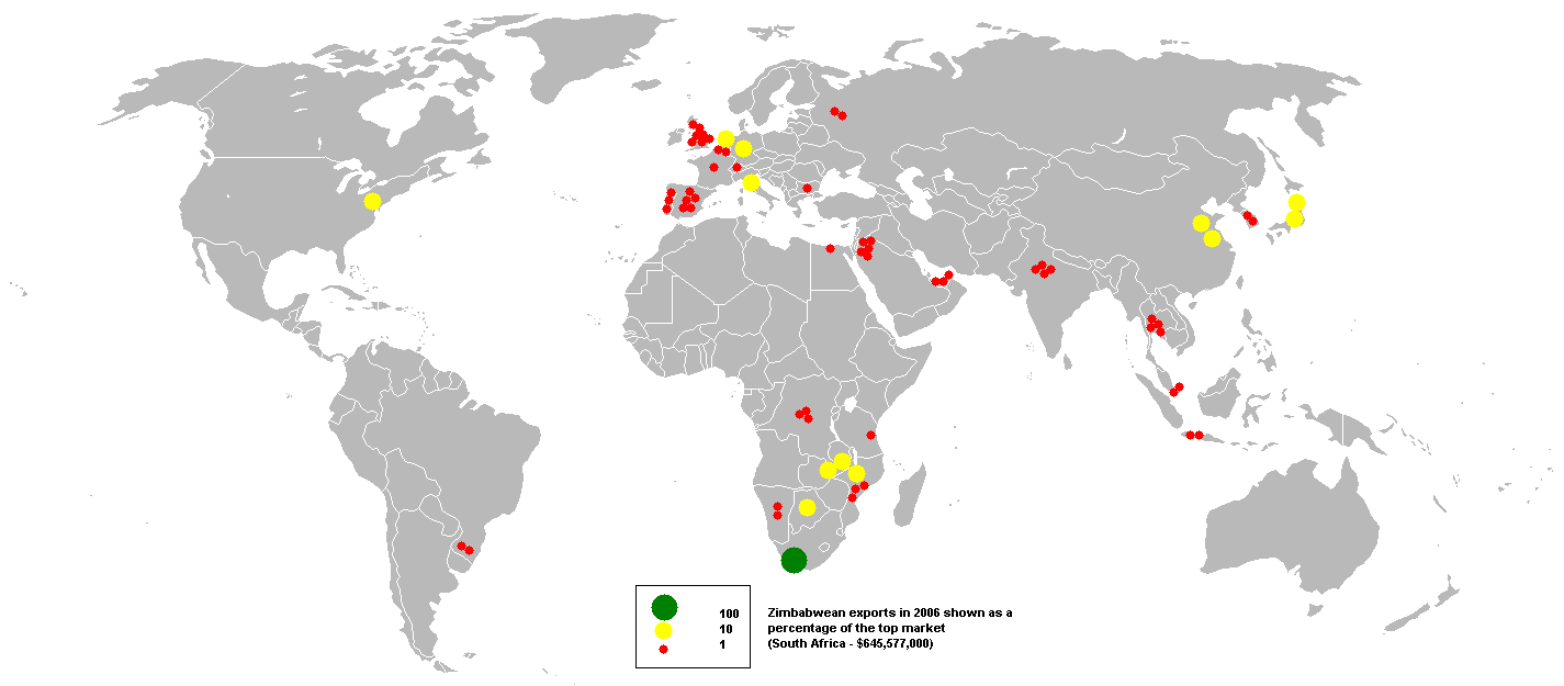 This bubble map shows the global distribution of Zimbabwean exports in 2006 as a percentage of the top market (South Africa - $645,577,000). This map is consistent with incomplete set of data too as long as the top producer is known. It resolves the accessibility issues faced by colour-coded maps that may not be properly rendered in old computer screens. Data was extracted on 30th September 2007 from Based on :Image:BlankMap-World.png